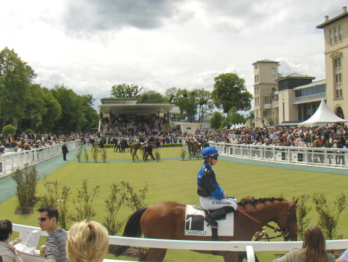 Chantilly Racetrack Parade ring